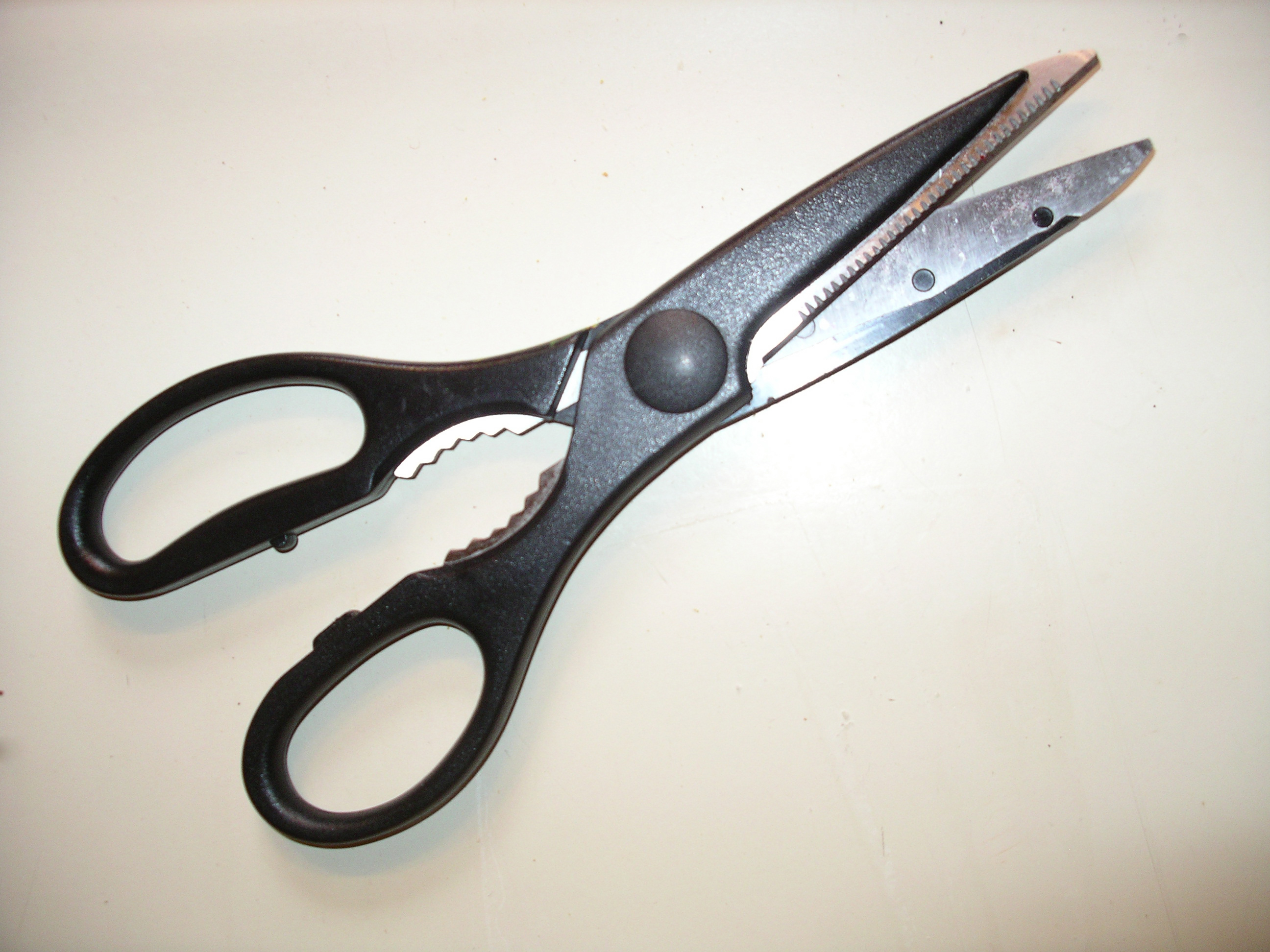 Kitchen scissors